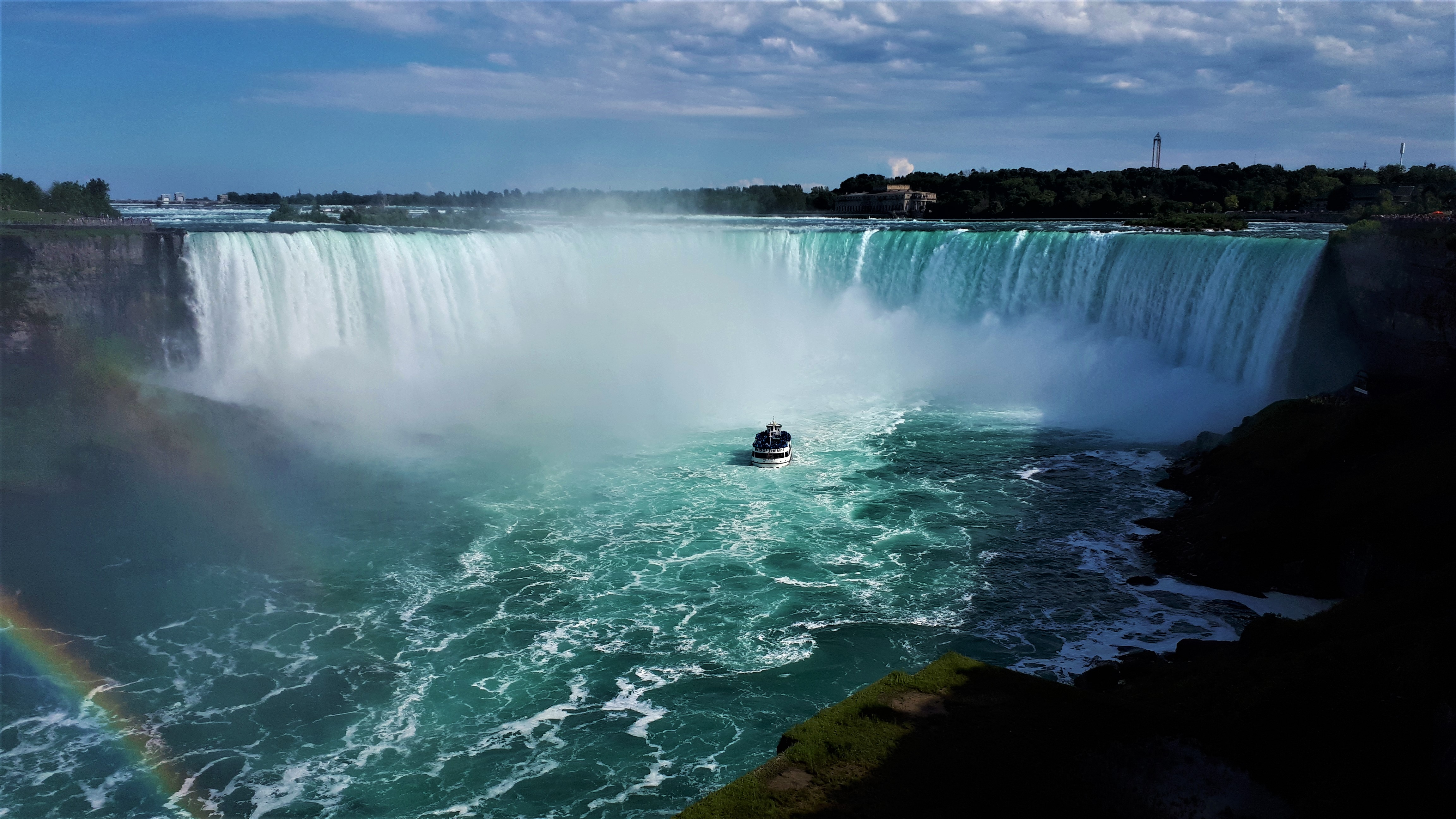 Niagara Falls- Horseshoe Falls